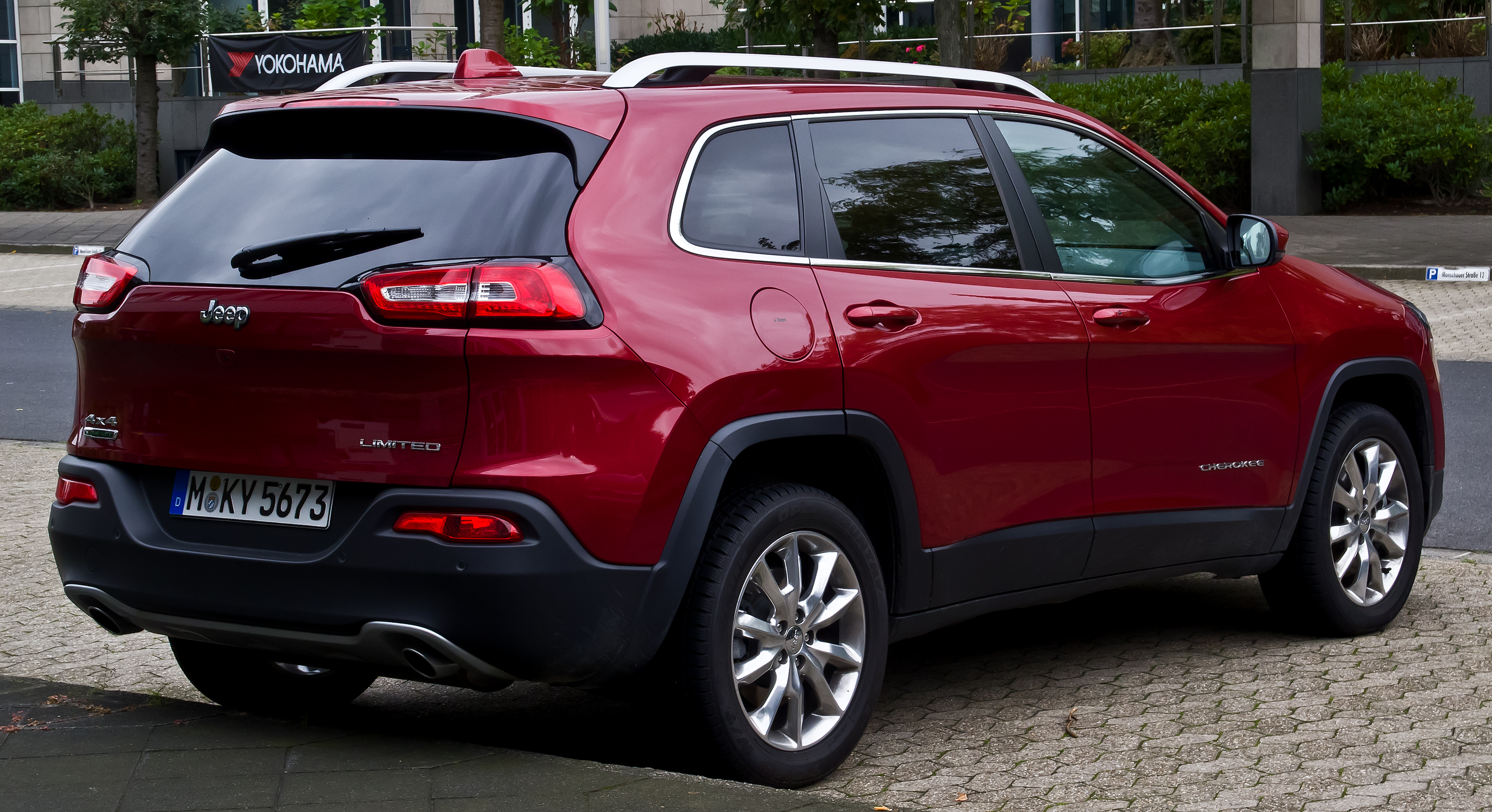 Jeep Cherokee 2.0 MulitJet 4WD Limited (KL)